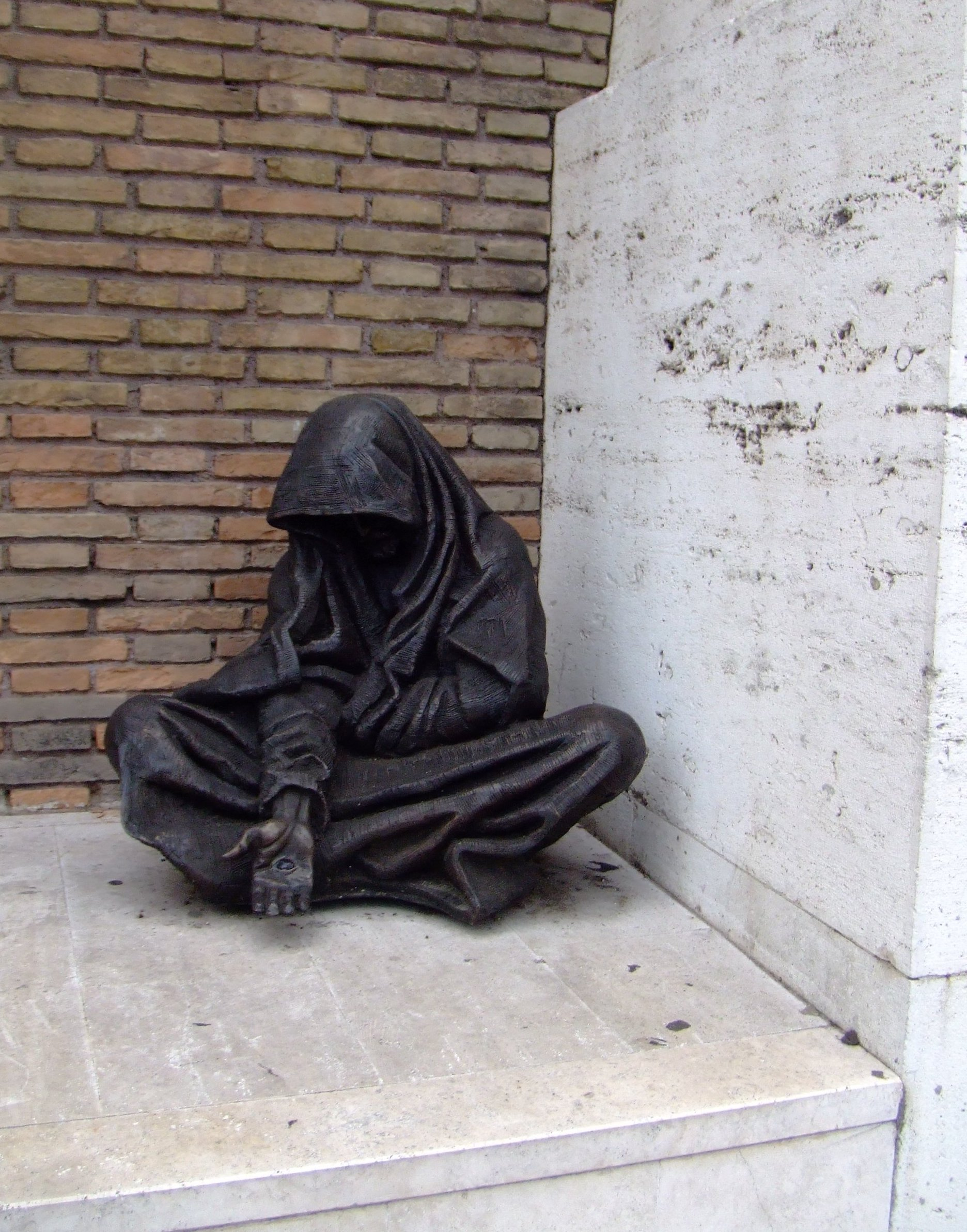 Eternel mendiant, in front of the main entrance of Santo Spirito Hospital, Roma, Italy